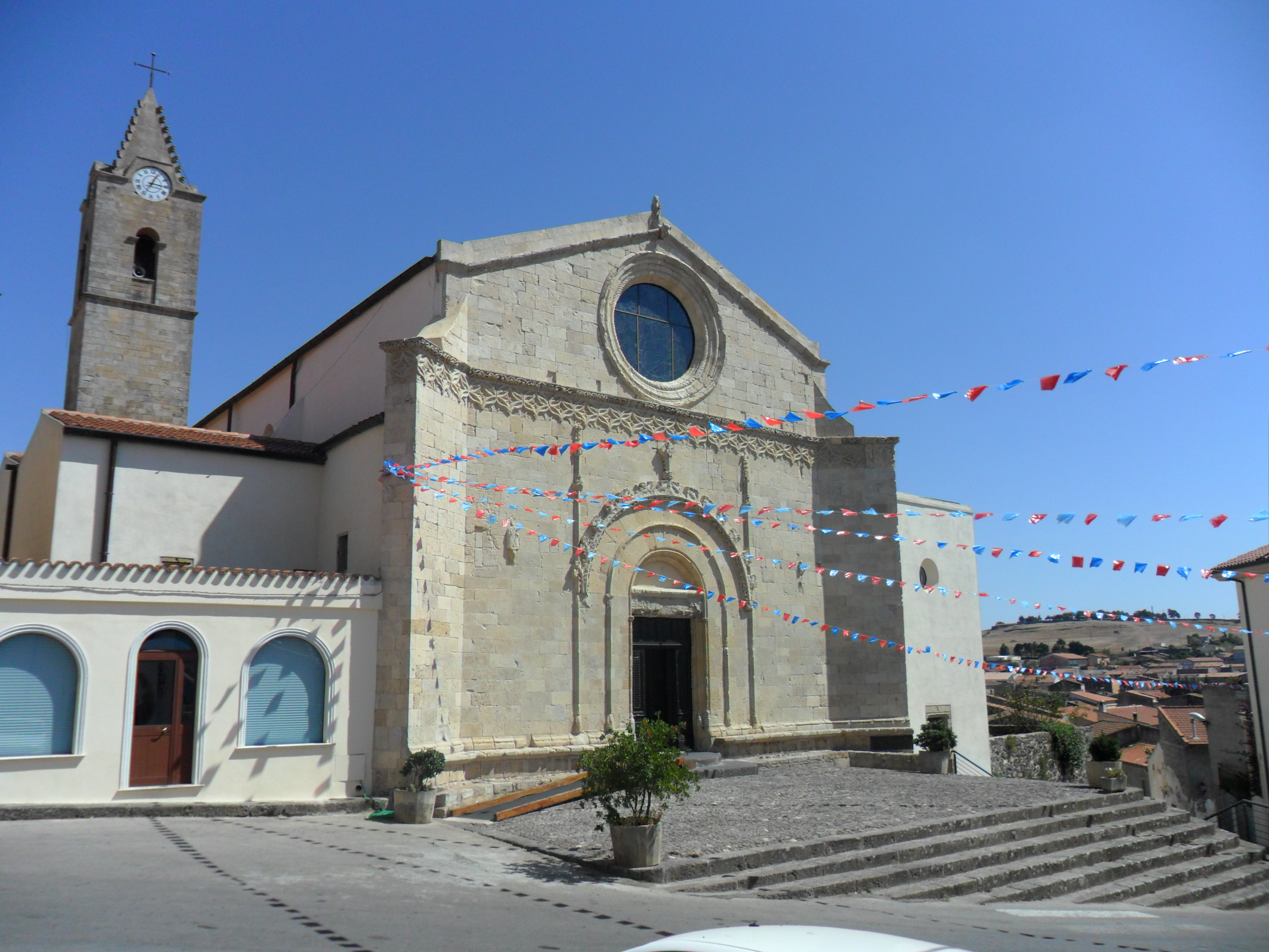 The Church of Saint George in Pozzomaggiore (SS) in Sardinia - Italy